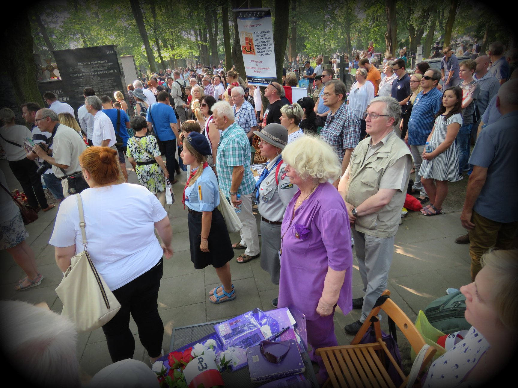 Barbara Wachowicz